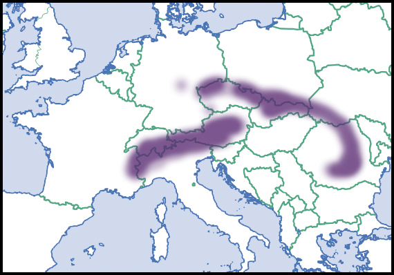 Eucobresia nivalis (Dumont & Mortillet, 1854). Distributional range in Europe, scientific state of knowledge of 2012. Source description in English. Light colour indicated rare occurrences or regions where the species could eventually be expected to occur. Dark colour indicated relatively reliable occurrences, as well as regions where the species was expected to occur, and where the species was not known to be extremely rare. Dark colour indications were not necessarily based on published records. Species summary in AnimalBase